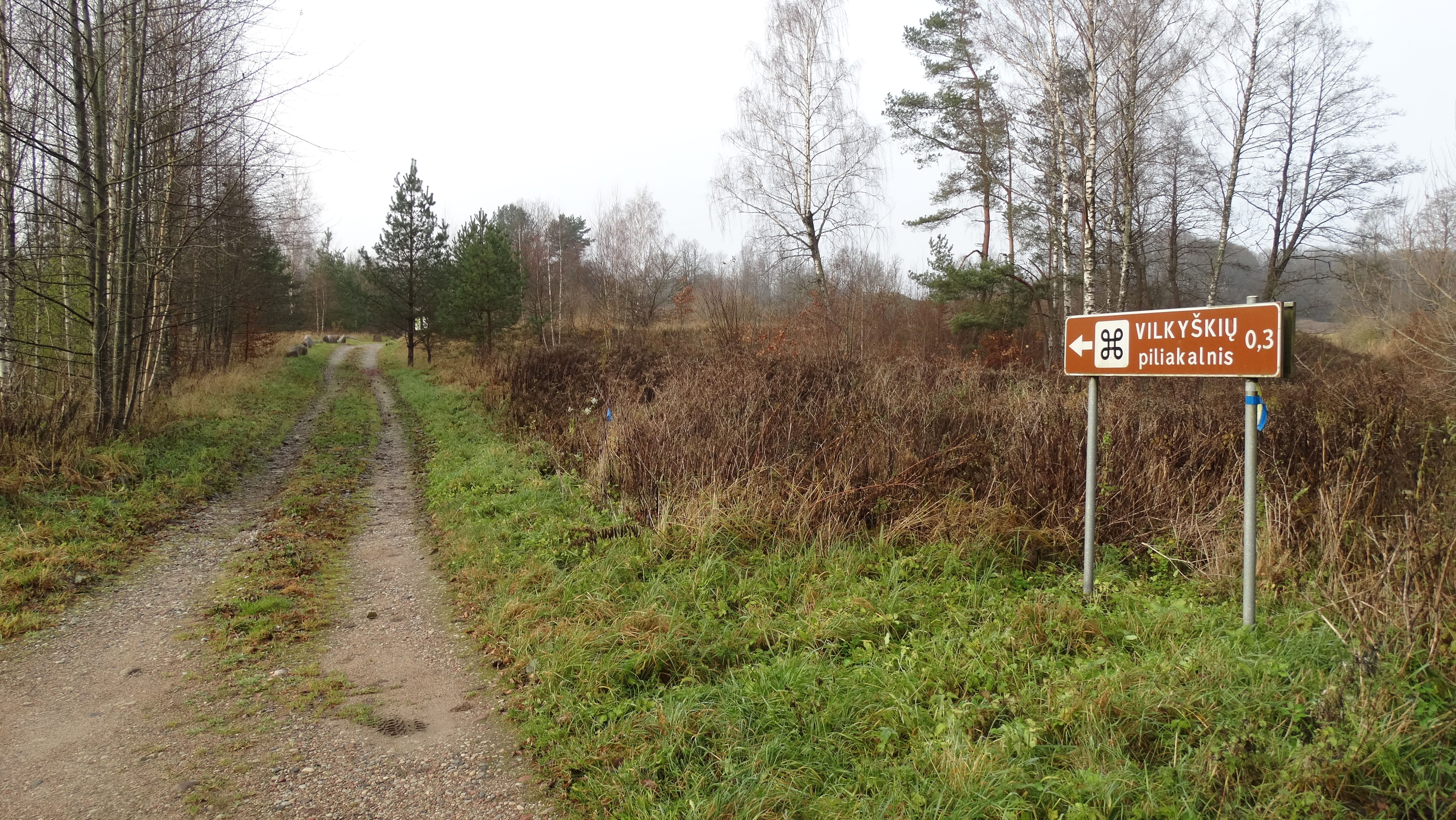 Vilkyškiai hillfort, Pagėgiai Municipality, Lithuania